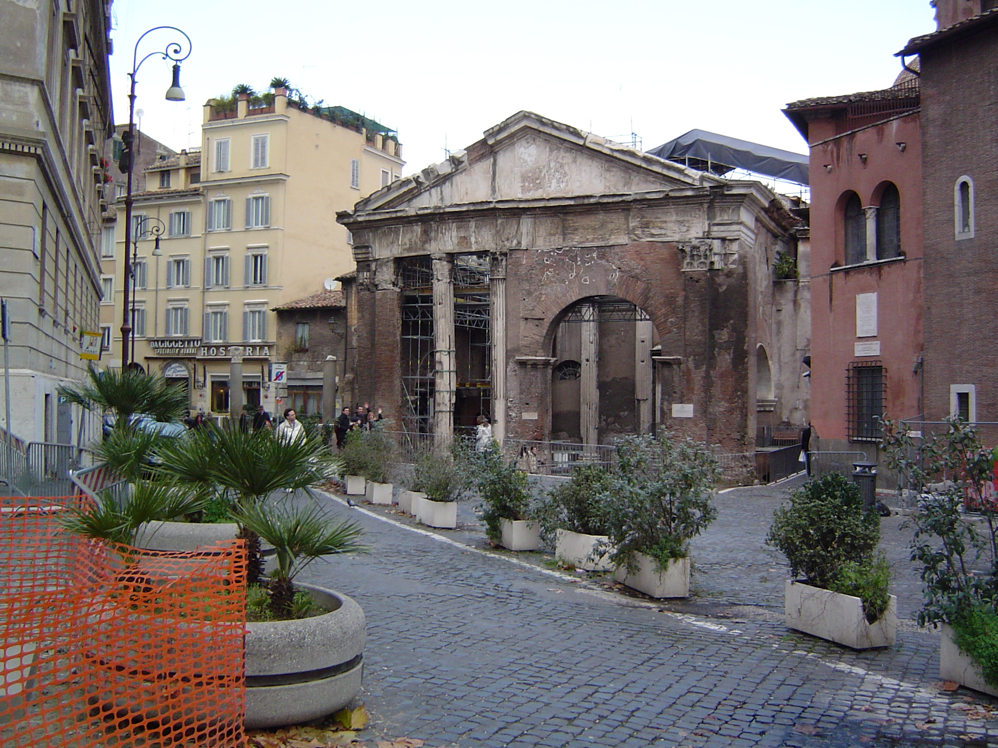 Porticus of Octavia, Rome, Italy